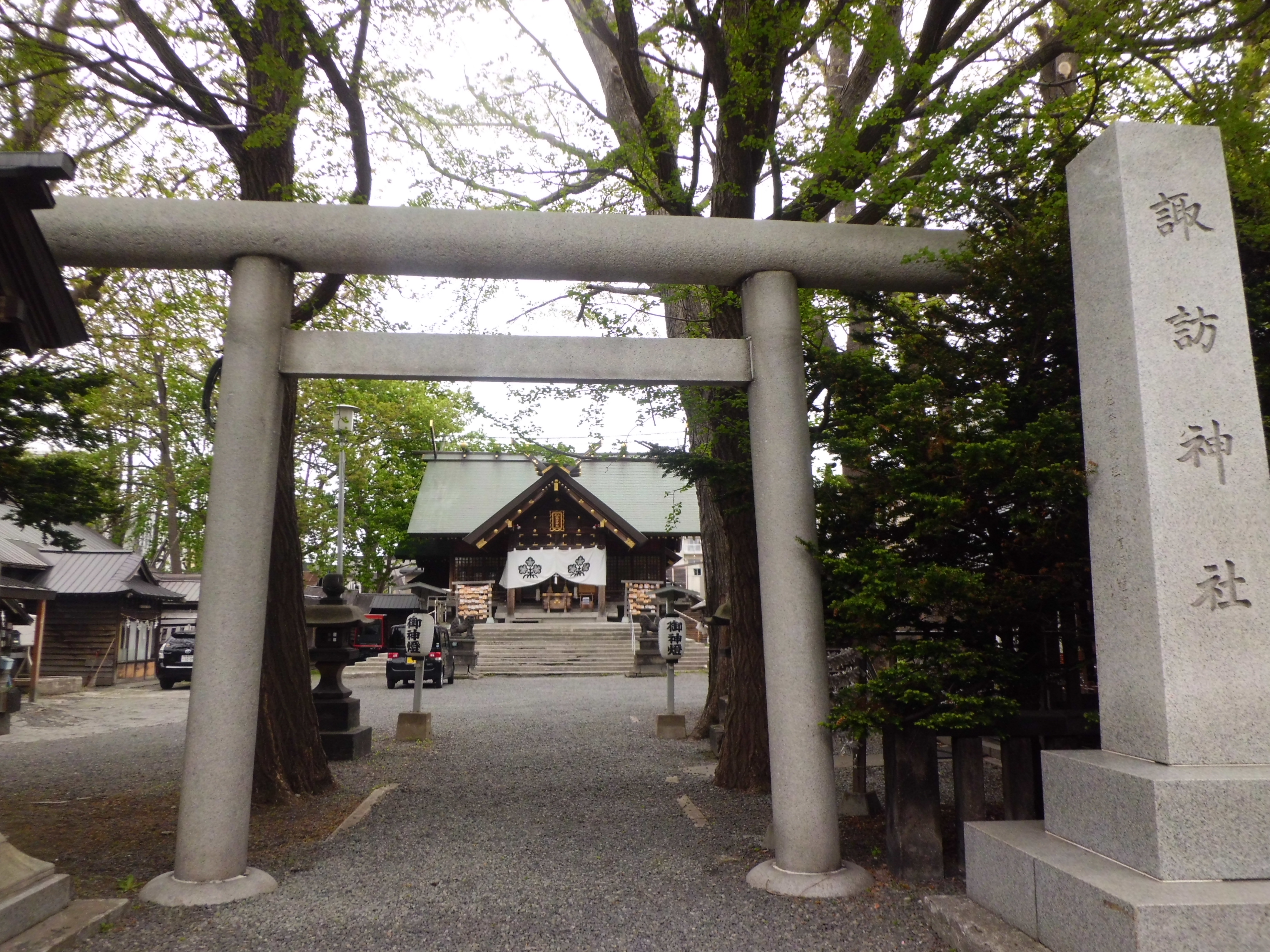 Suwa Shrine in Higashi-ku, Sapporo